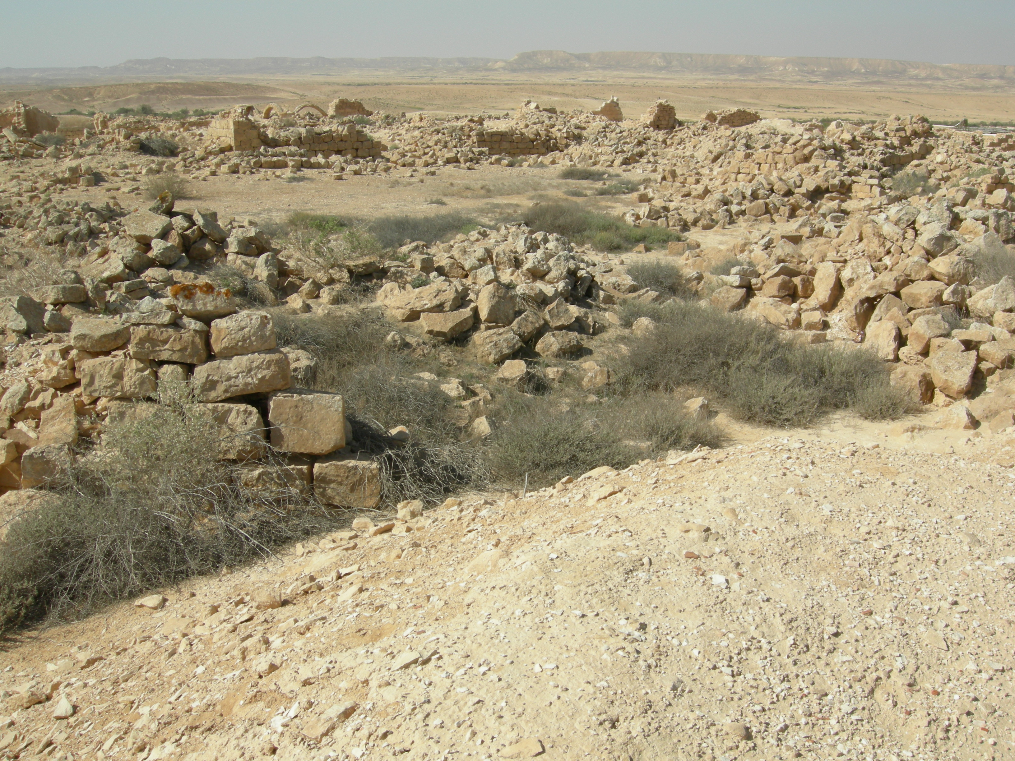 Residential neighborhood remains in Shivta, Negev Desert, Israel